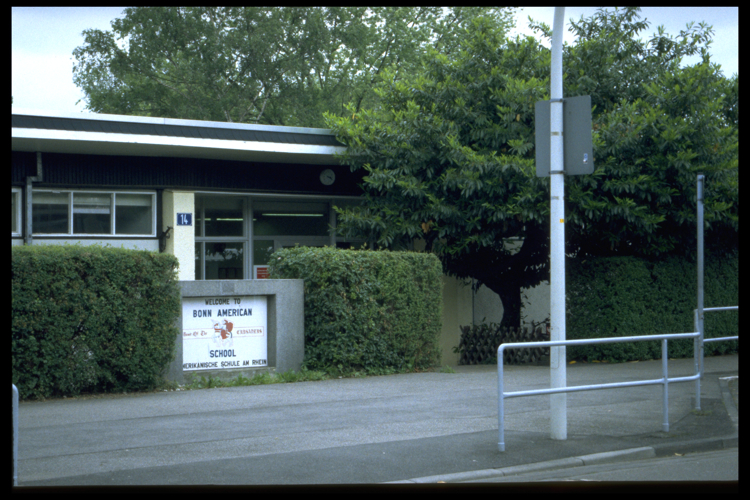 Main entrance to Bonn American High School, Plittersdorf, Bad Godesberg, Bonn, Federal Republic of Germany